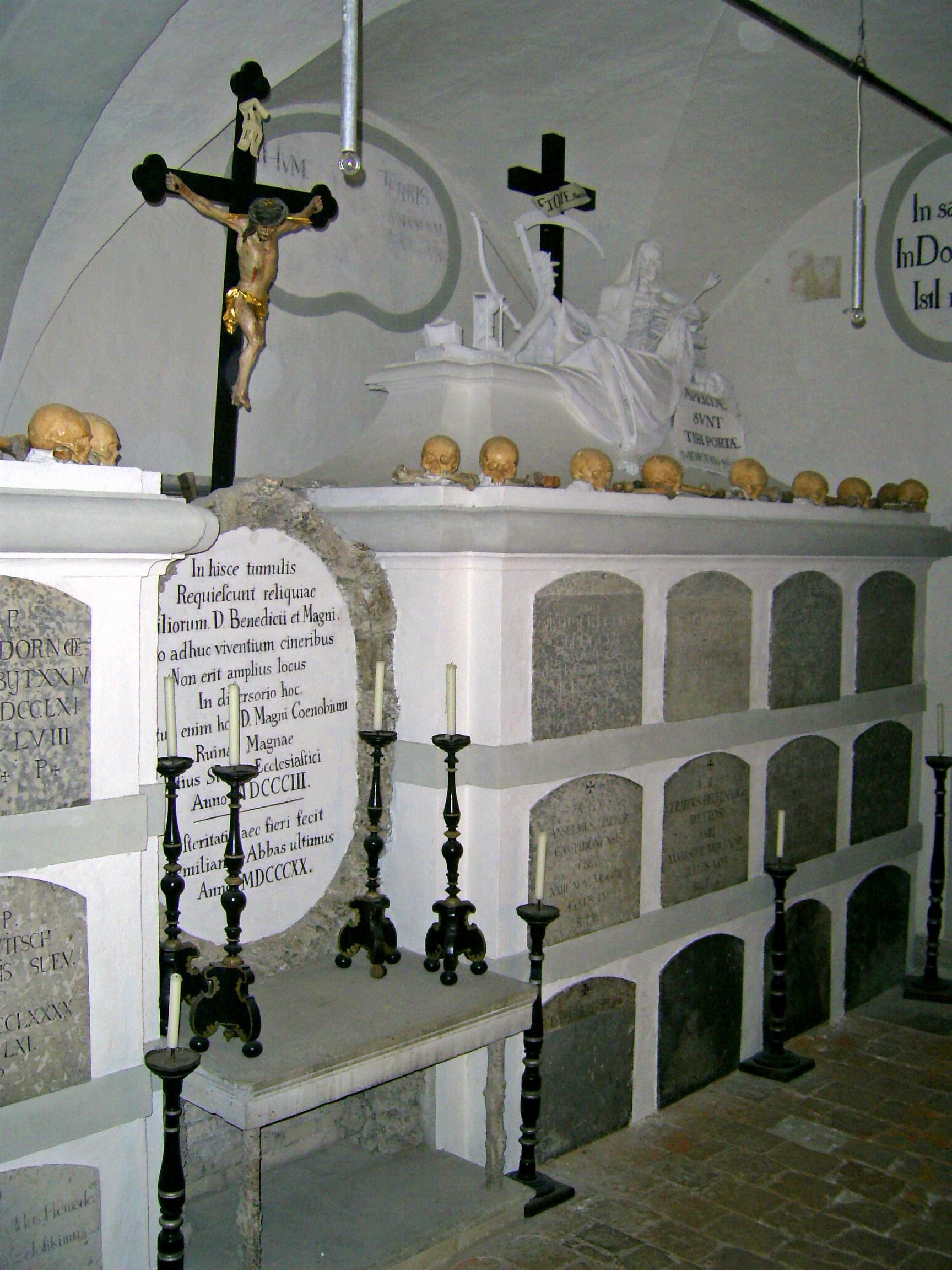 photo by Myke Rosenthal-English